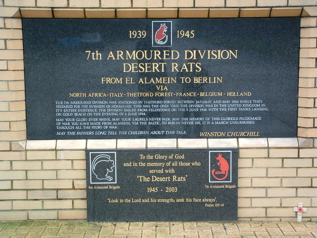 Tank Memorial To 7th Armoured Division Desert Rats A tank memorial to the 7th armoured division desert rats at the side of the A1065 near to Ickburgh Norfolk. More info